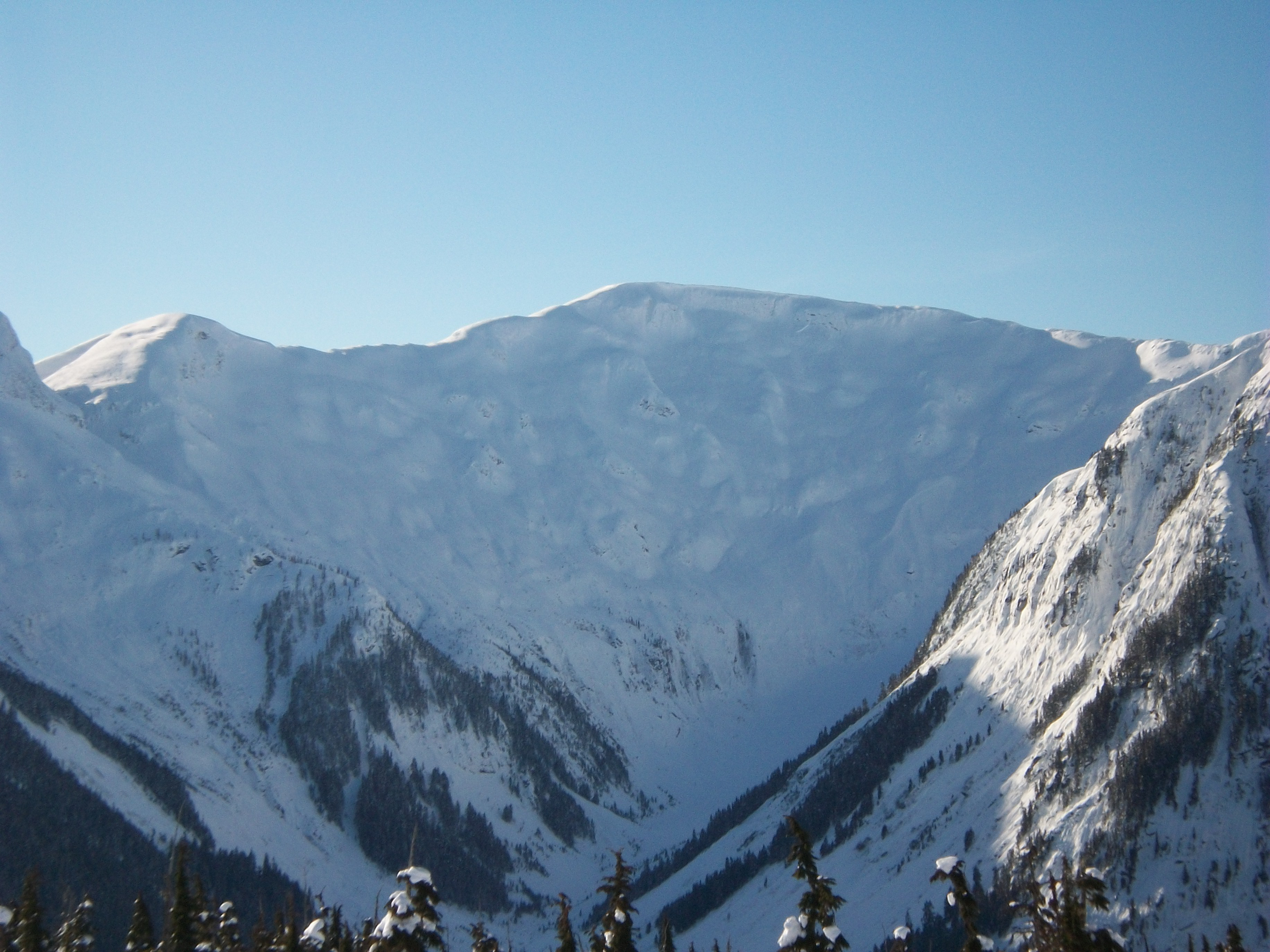 View from Shames Mountain.